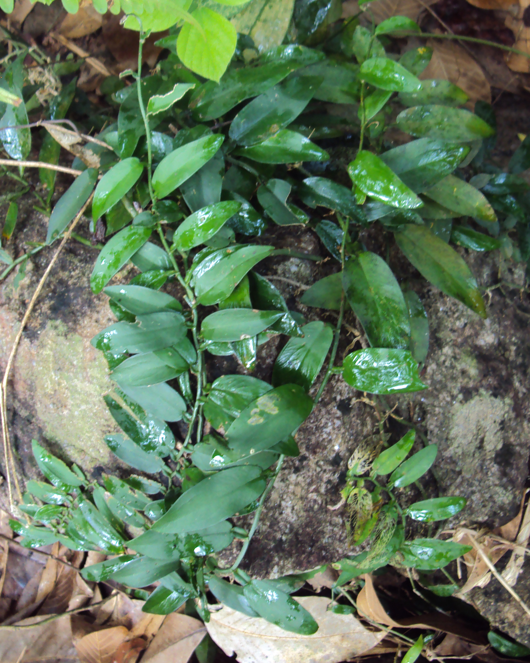 Pothos scandens